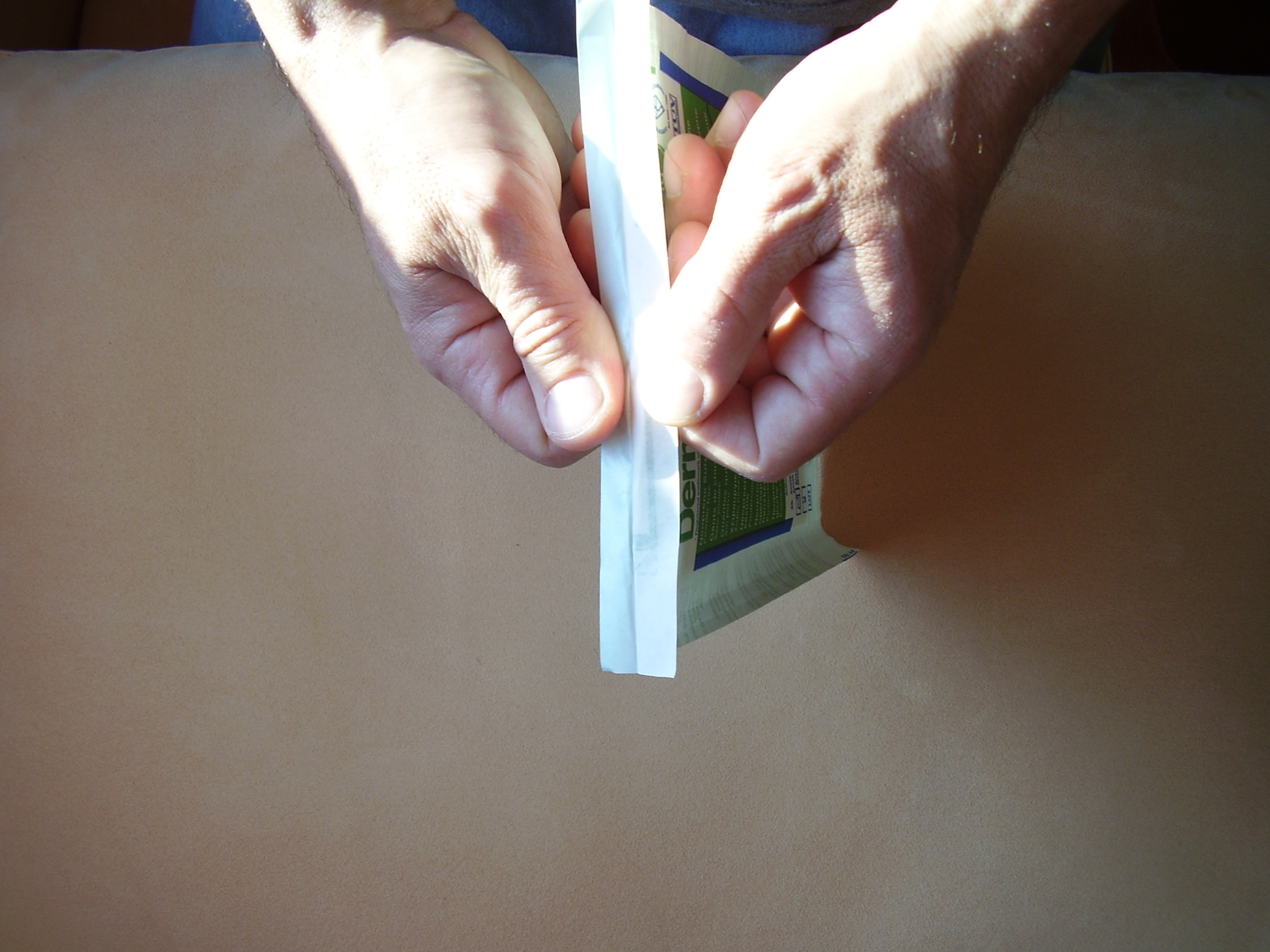 Disposable gloves; surgical gloves; chirurgische Handschuhe; steril; Latexhandschuhe